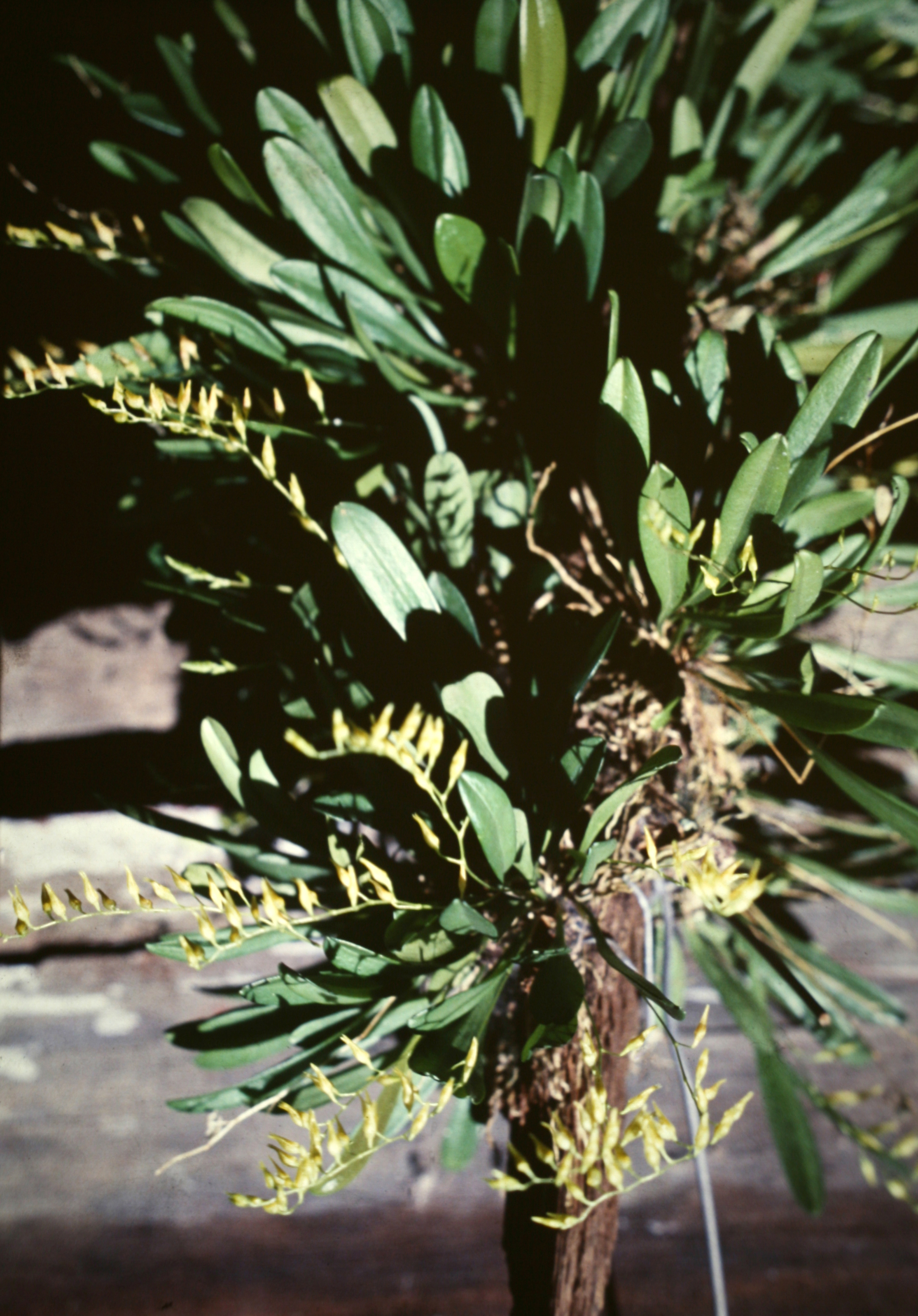 Pleurothallis grobyi , Suriname.